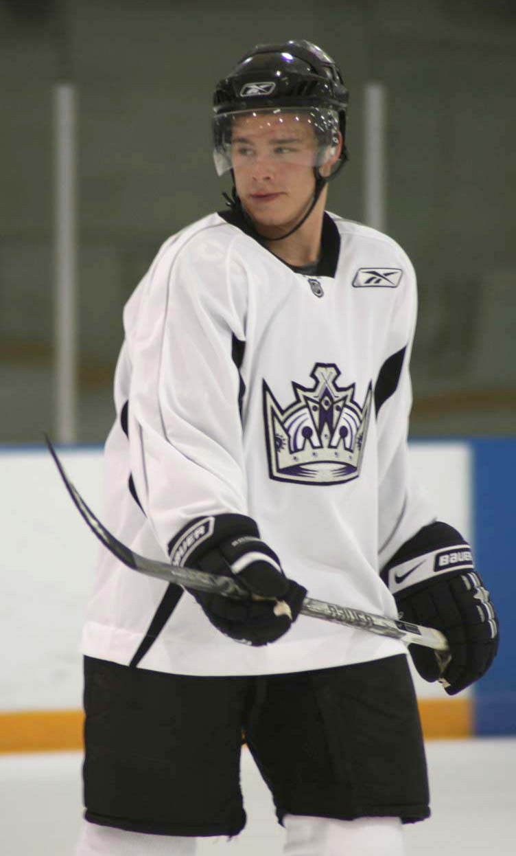 American ice hockey player Dustin Brown